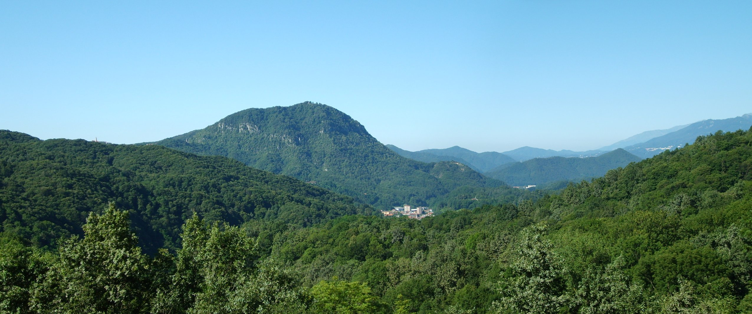 Monte Fenera and Valduggia from Zuccaro